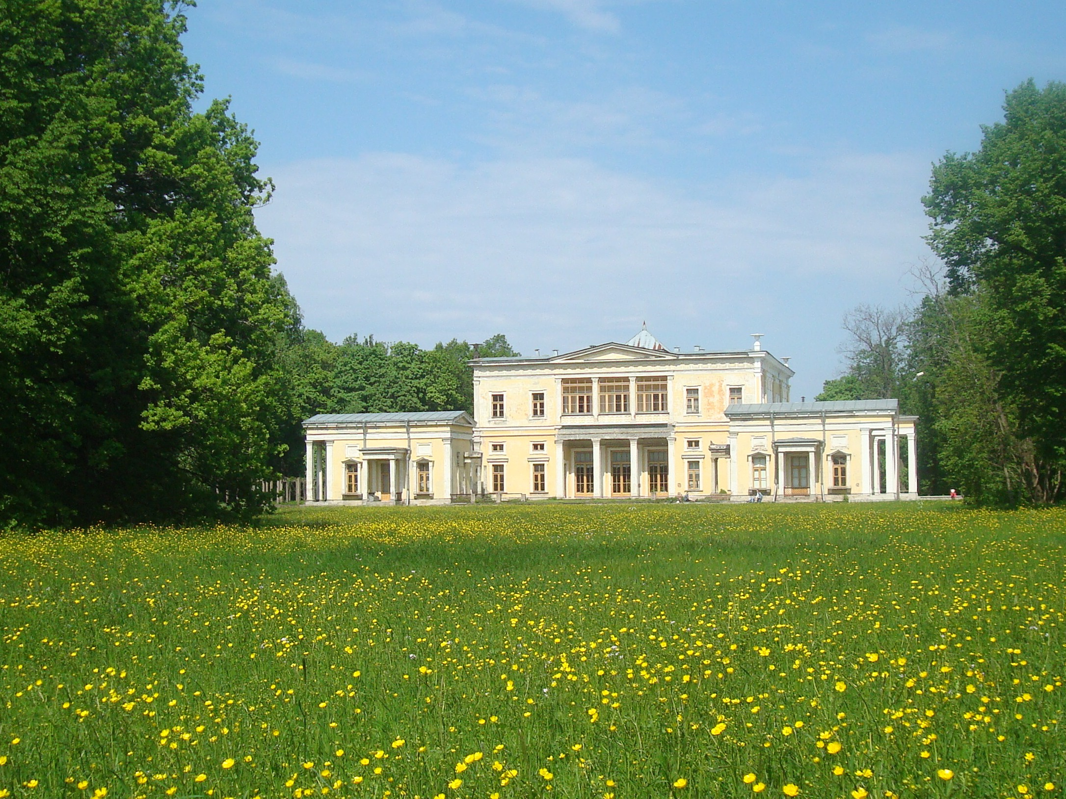 Leuchtenberg Summer Palace in Sergievka, Peterhof (Russia)